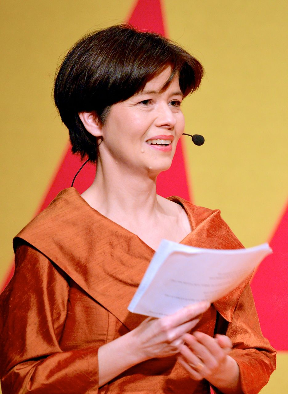 Yukiko Duke at Kulturhuset in Stockholm February 25, 2014 during the Tucholsky prize award ceremony.